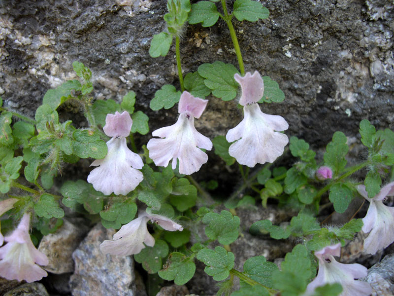 Stachys corsica